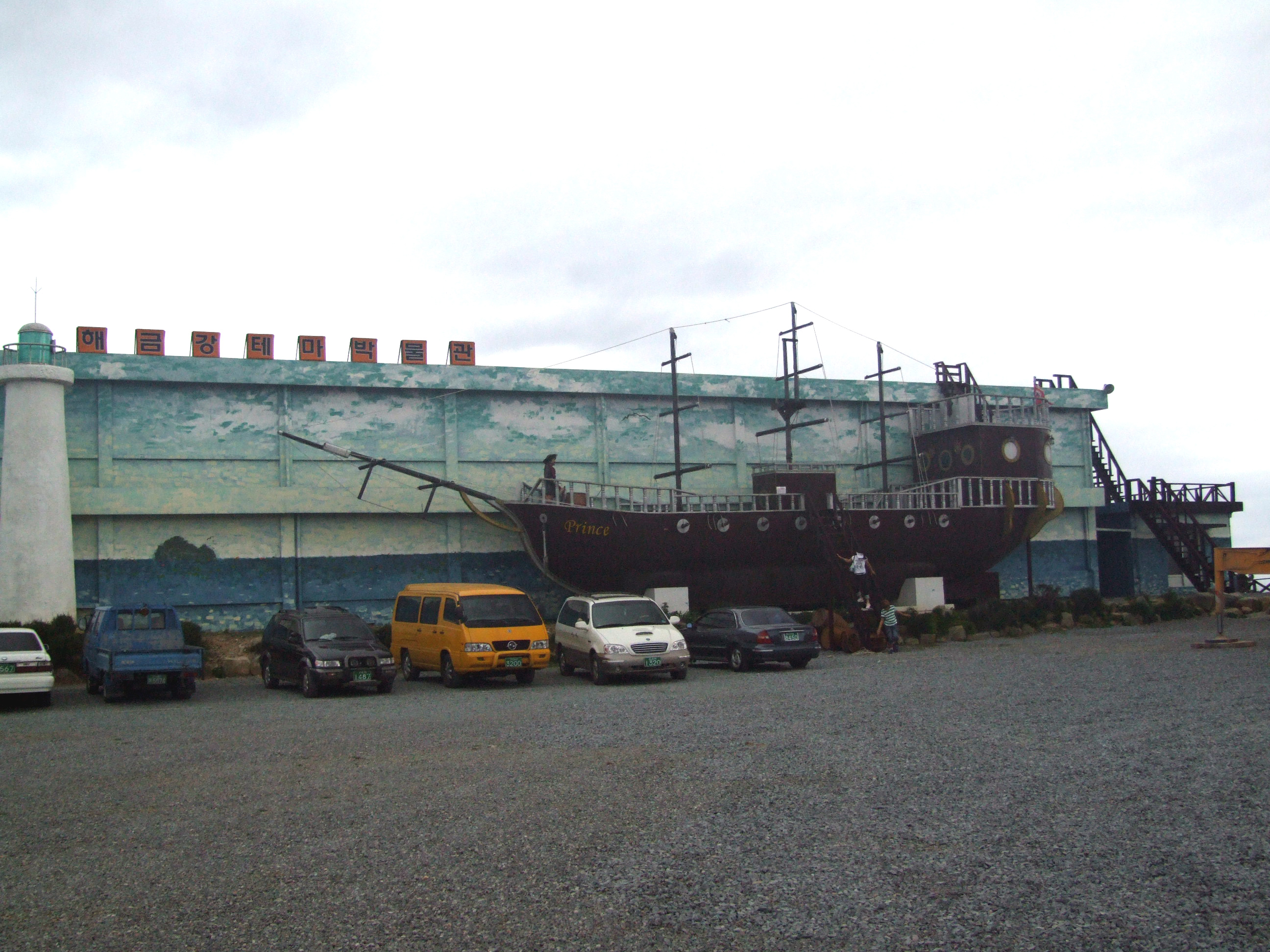 Goeje Theme Exibition showing old life in their 1960's ~ 1970's